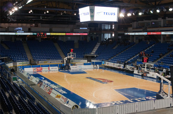 Picture of the basketball court (inside the hockey arena) used for high school basketball at the Langley Events Centre.